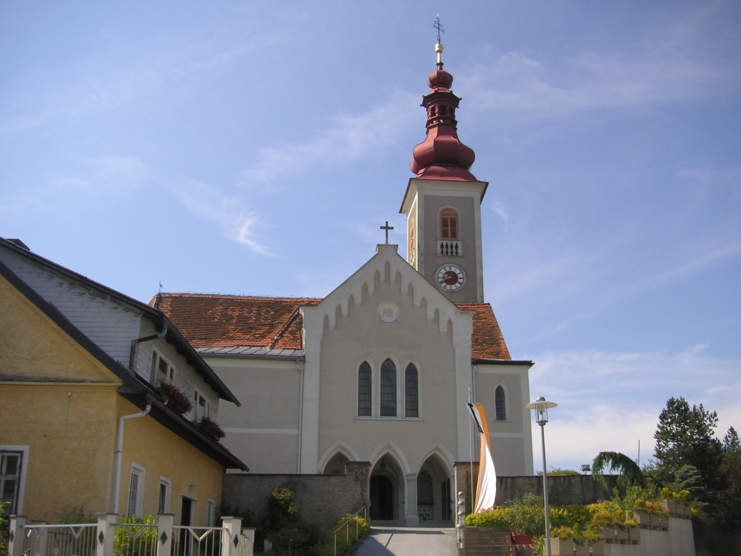 The church of Sankt Oswald bei Plankenwarth